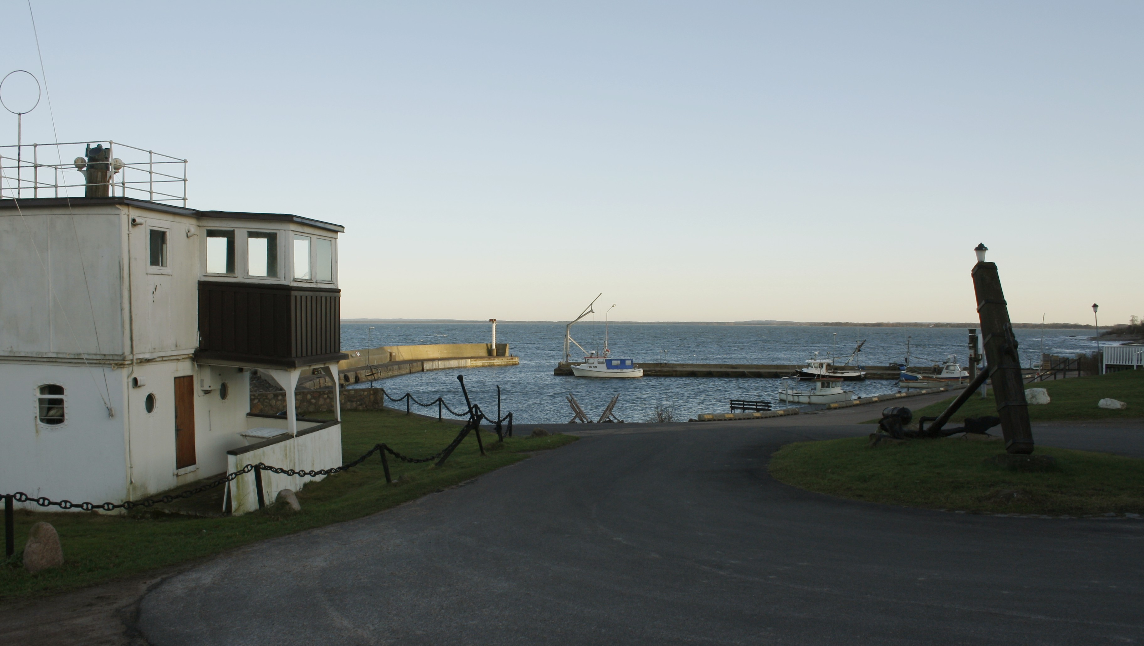 The harbour of Svanshall, Skåne, Sweden